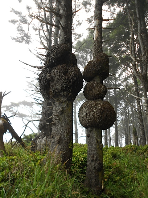 Sitka spruce trees with tumors, Olympic National Park, Washington